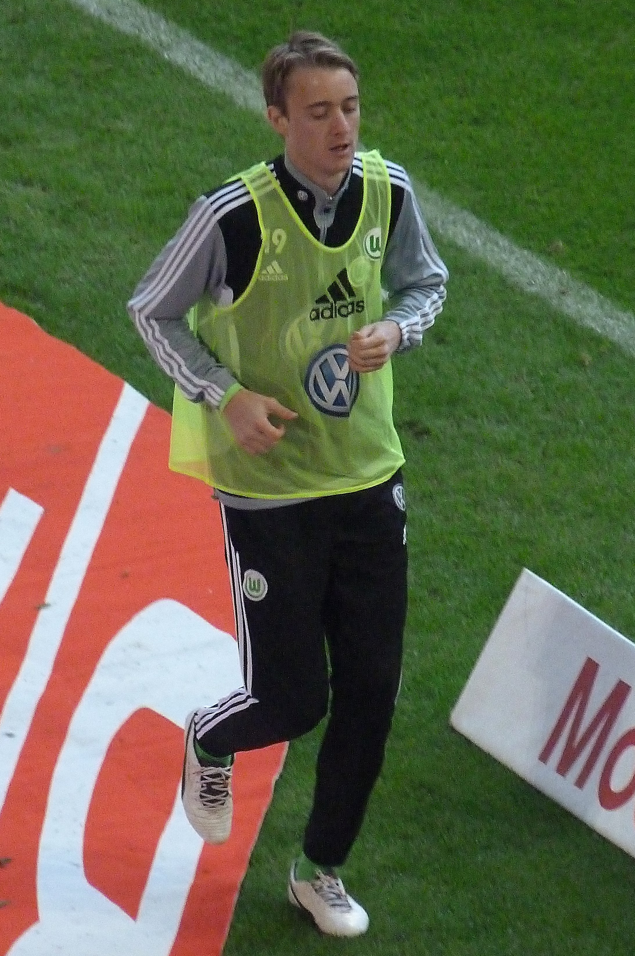 Rasmus Jönsson as Player from VfL Wolfsburg